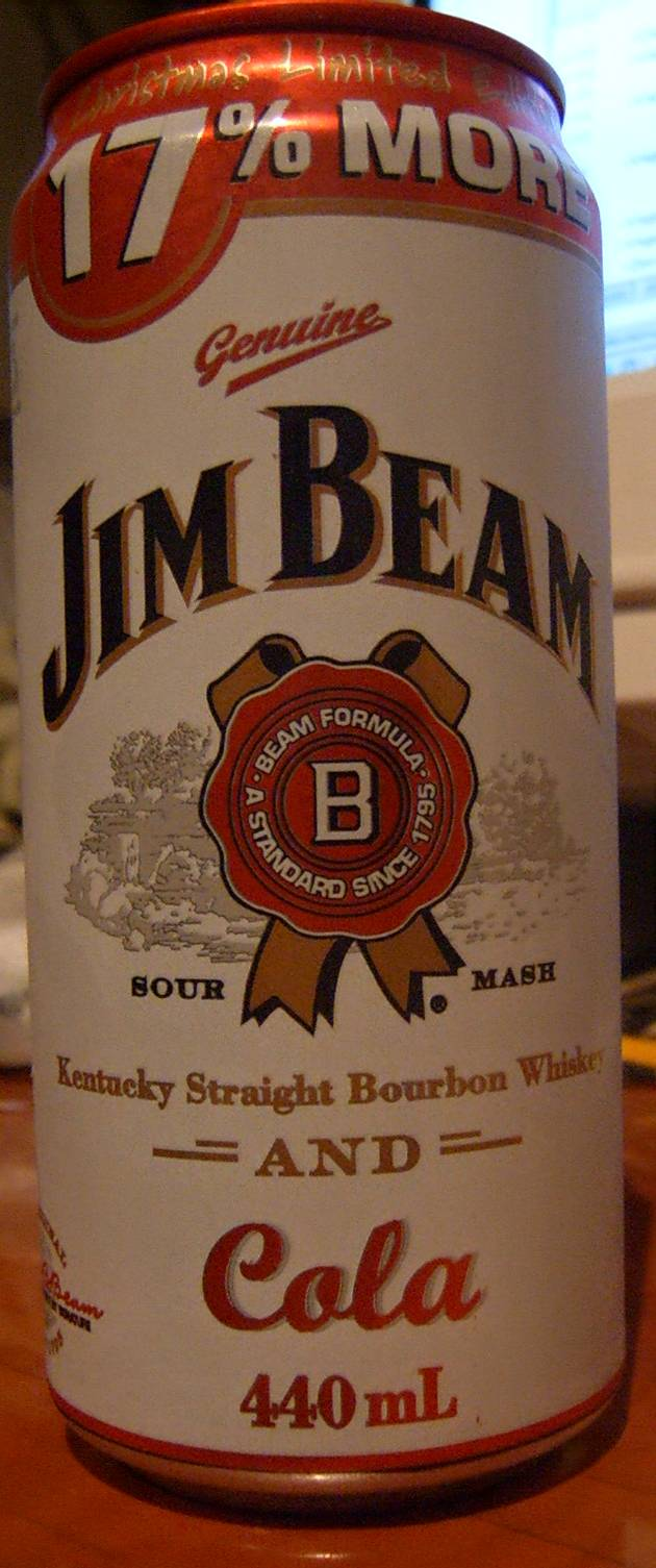 A can of Jim Beam bourbon whiskey & cola. Admittedly, a bottle would be a better image, but I haven't got a bottle. This can is unusual in that it is part of a Christmas promotion by the Jim Beam company: instead of being 375mL cans, they are 440mL, with a big red thing on the top saying "Christmas Limited Edition 17% MORE". These cans contain 11.3% white label 4yr old bourbon mixed with cola. Funnily enough, the "contains bourbon" bit is in tiny writing while the "CONTAINS CAFFEINE" is in whopping great text you couldn't possibly miss. Odd, eh?